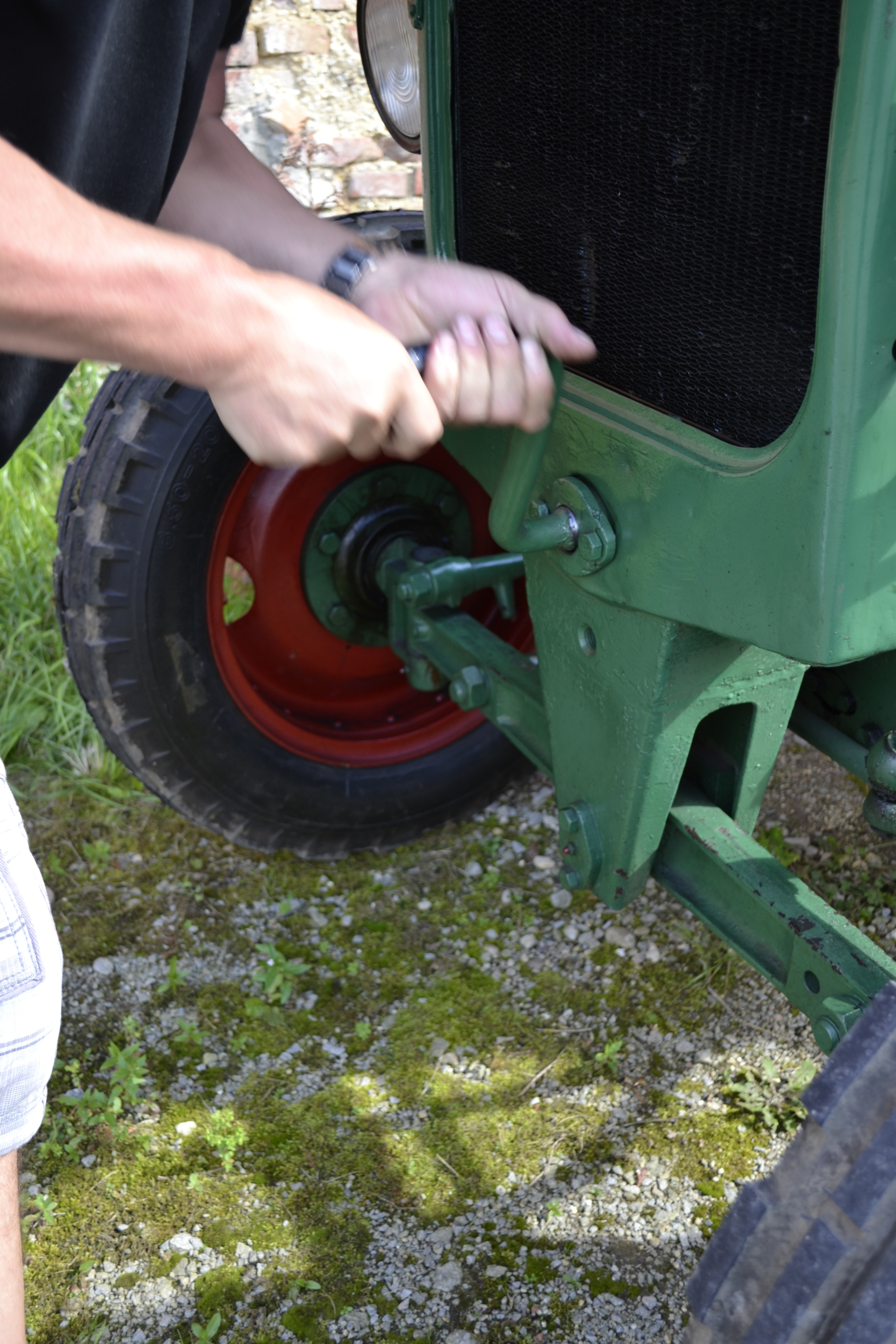 Unidentified tractor started with cranks.